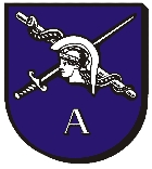 Internal coat of arms of the Bundeswehr (Armed Forces of the Federal Republic of Germany). → Remarks on naming and categorization scheme Wappen der Sanitätsakademie der Bundeswehr (medical academy of the Bundeswehr) in München (Munich / Germany)